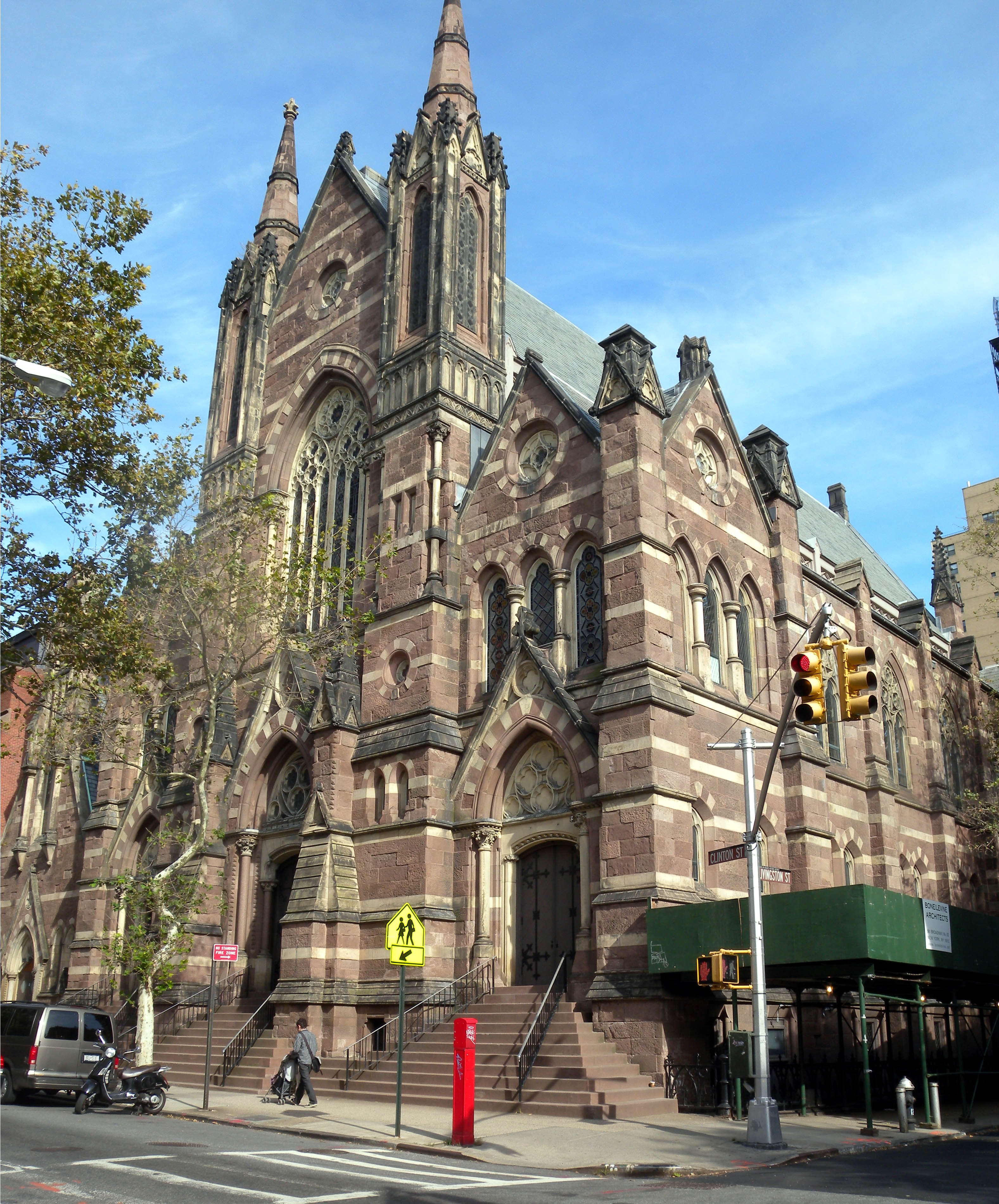 Looking northeast across Livingston and Clinton Streets at a building of the Packer Collegiate Institute, formerly St Ann's Church, built in 1866-1869 and designed by Renwick & Sands. It has restorations and a modernist addition connecting to the school's main building in 2003 by Hugh Hardy of H3 Collaboration Architecture.